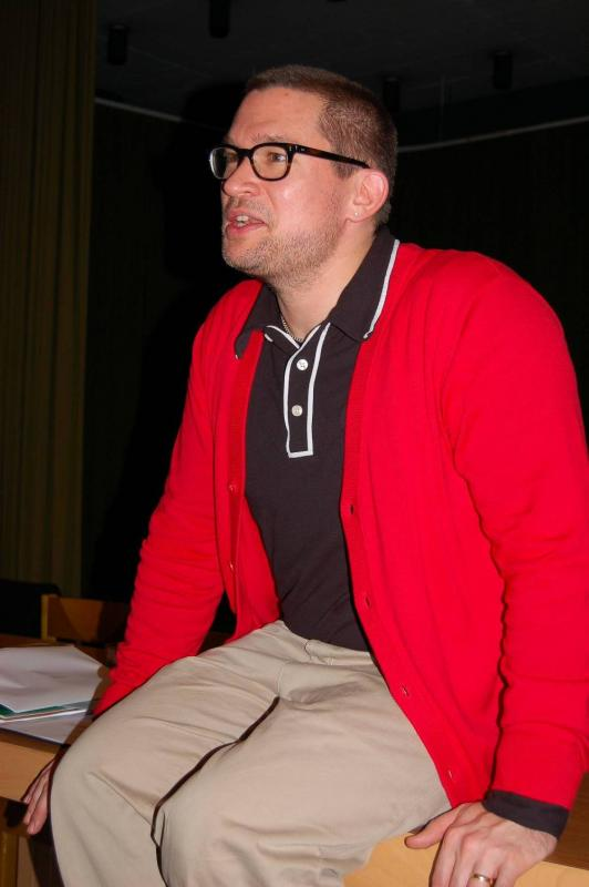 Philipp Tingler, a German writer from Zurich, Switzerland